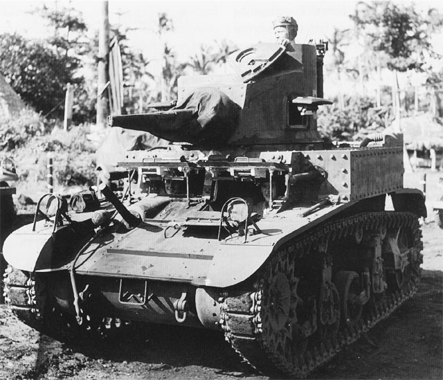 Marines of the 7th Defense Battalion, one of the "RAINBOW Five," give their new M3 Stuart light tank a trial run at Tutuila, American Samoa, in the summer of 1942.